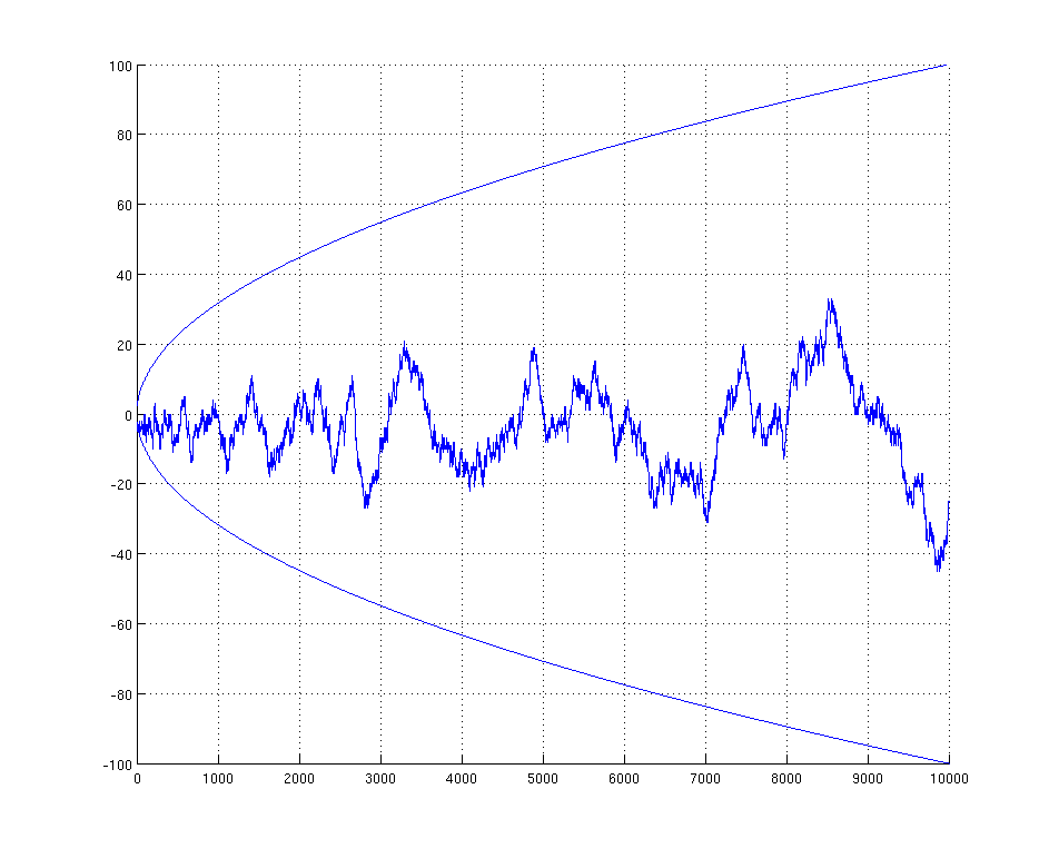 The graph shows Mertens function M(n) and the square roots ±√n for n≤10000. After computing these values Mertens conjectured the modulus of M(n) is always bounded by √n. This hypothesis, known as Mertens conjecture, was disproved in 1985 by Andrew Odlyzko and Herman te Riele